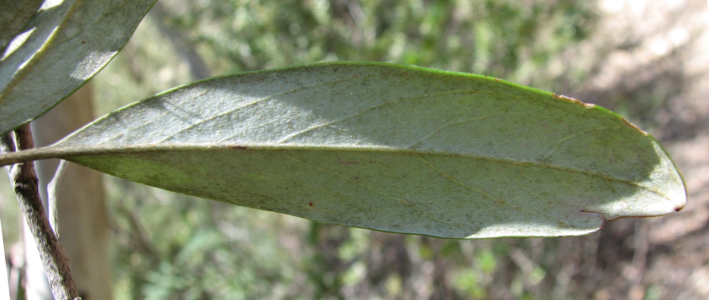 Lower leaf surface of Grevillea victoriae subsp. victoriae, Mount Buffalo National Park, Victoria, Australia